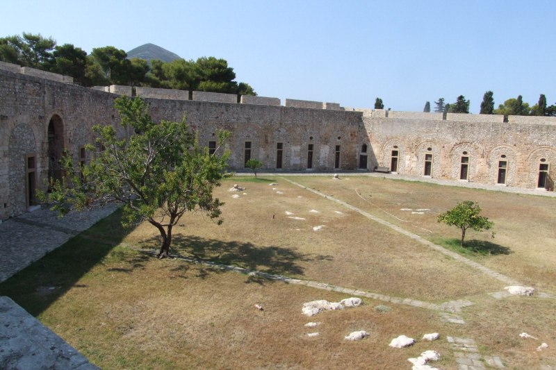 fortress from Pylos